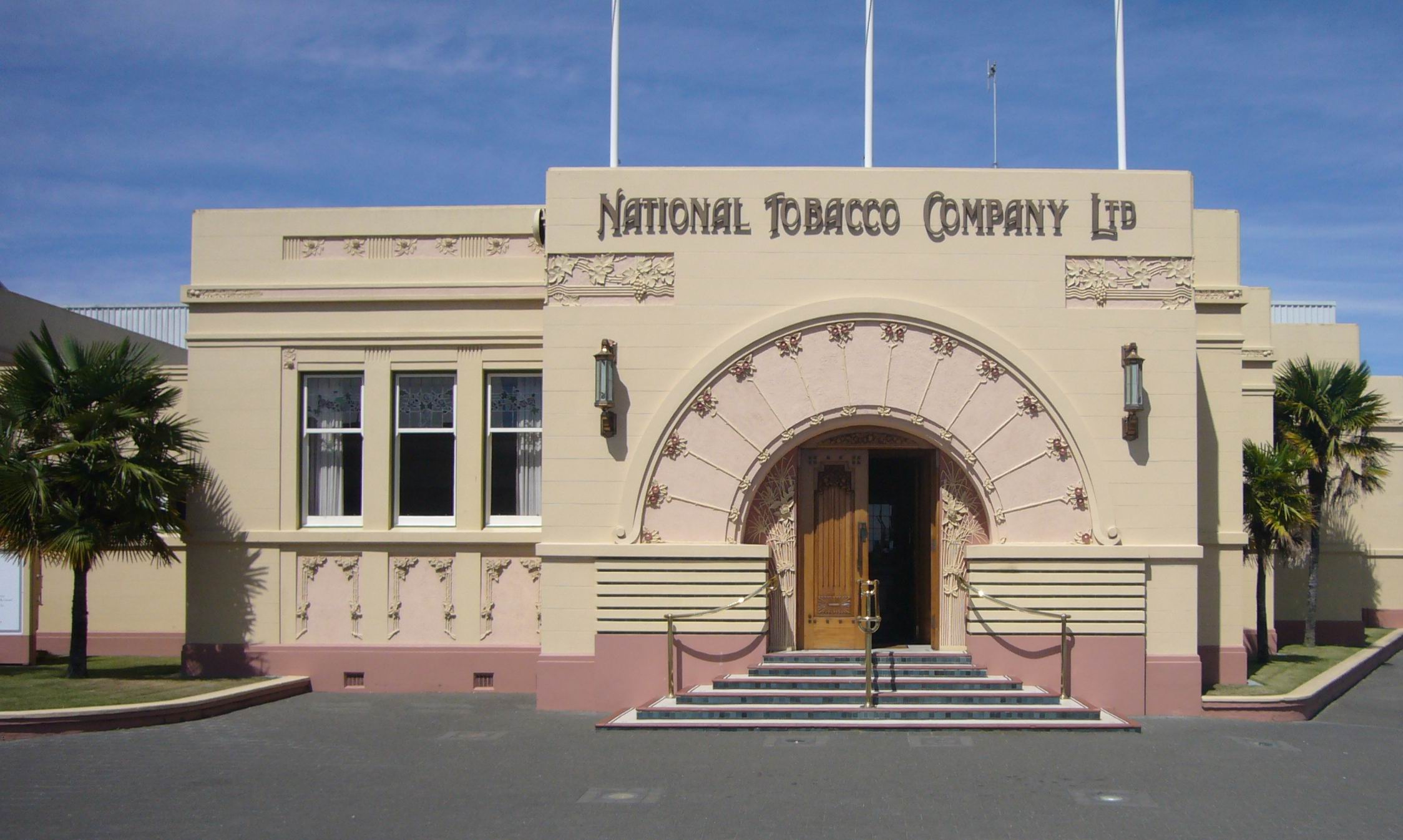 National Tobacco Company Ltd building in Napier, New Zealand. New Zealand Historic Places Trust Register number: 1170.